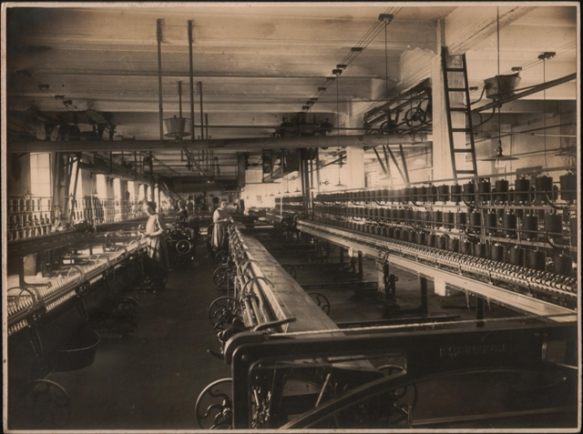 Selfactor at Vonwiller Company